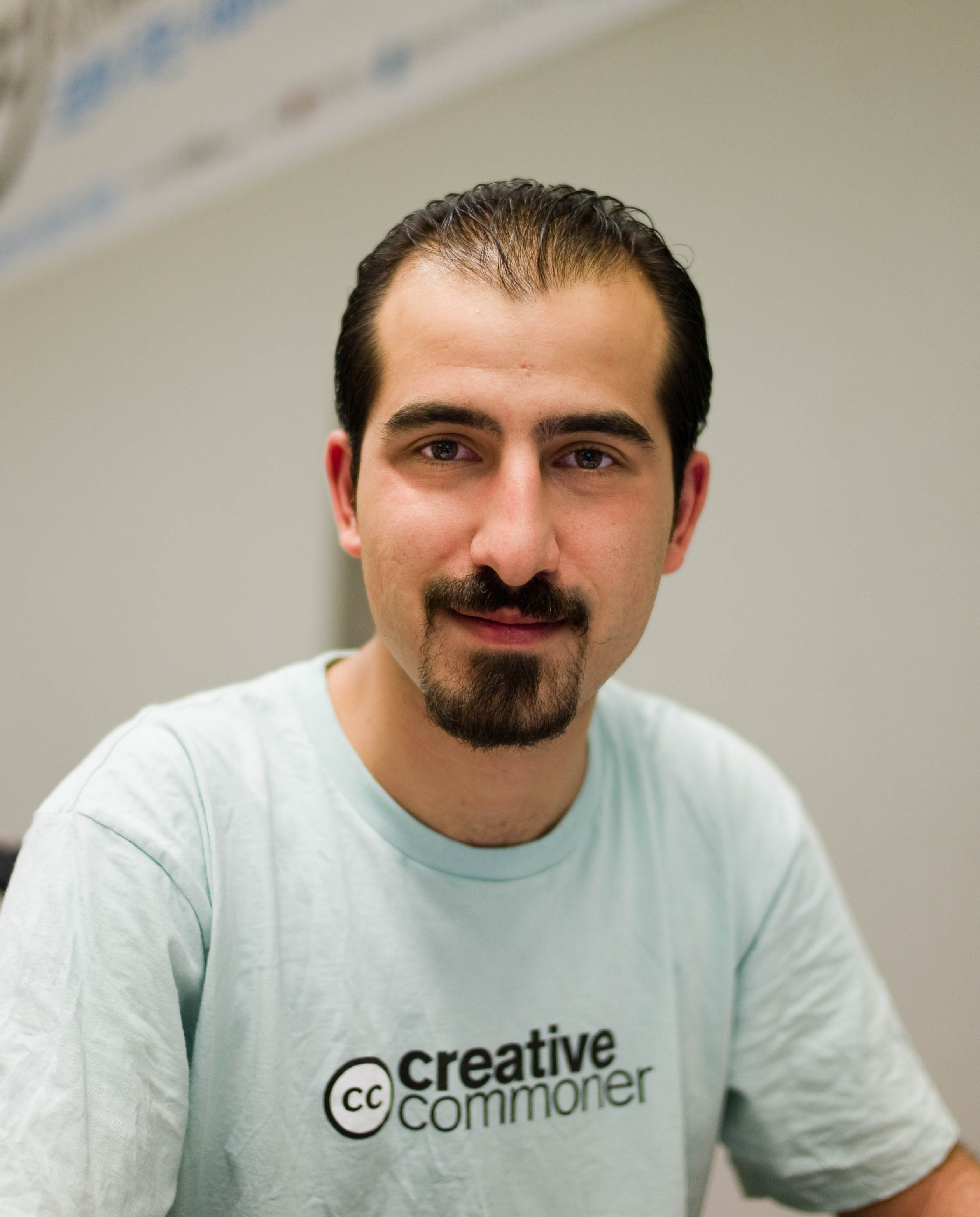 Image of Bassel Khartabil (Safadi) taken in Seoul. Crop to fit wikipedia article.